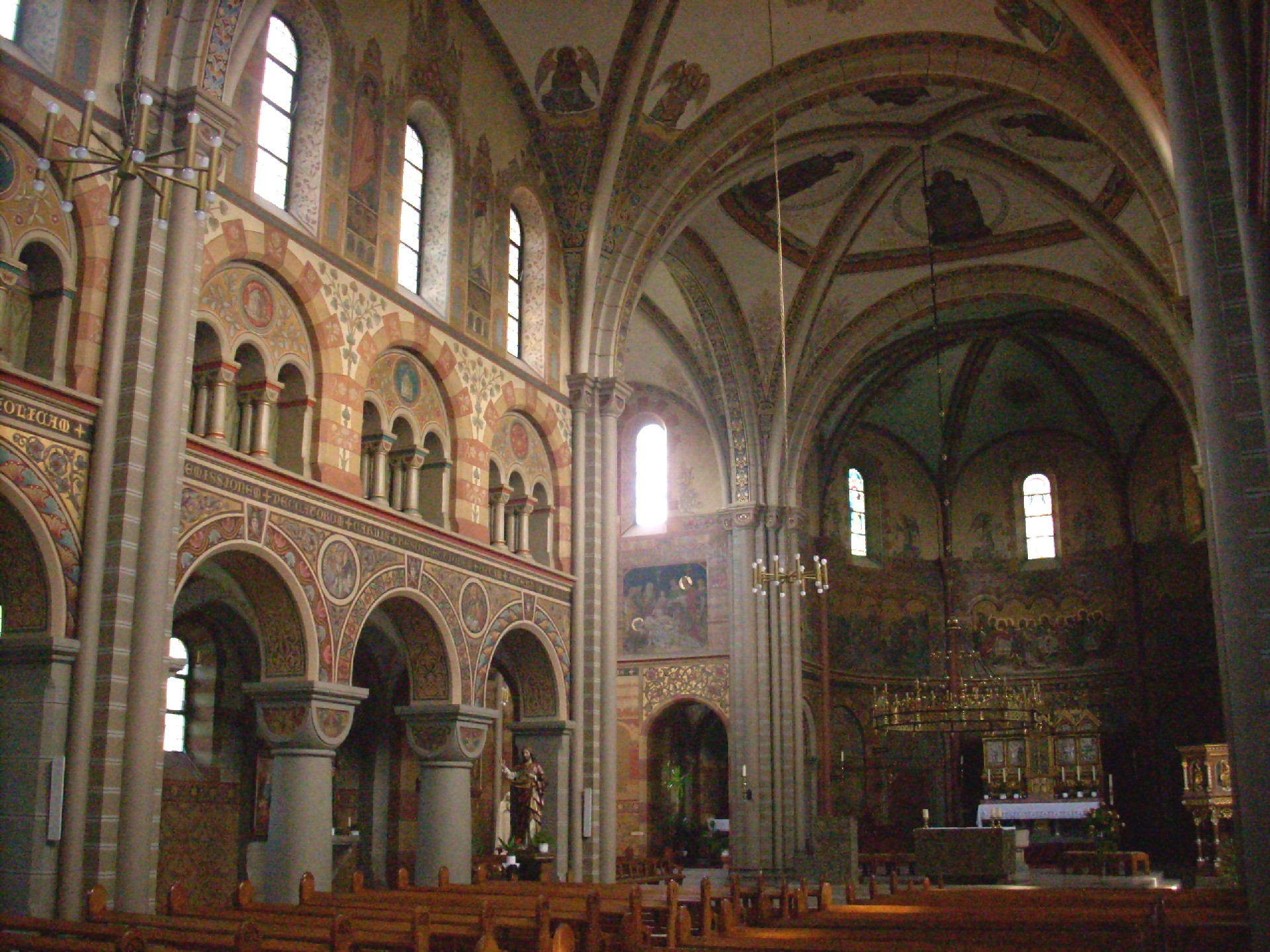 St. Caecilia Catholic Church, Harsum